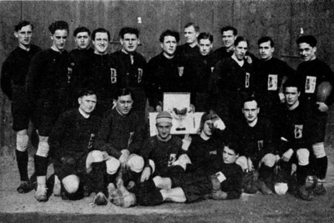 The rugby union team of the Brescia's 15th Legion of the Fascist Militia ("Leonessa") during the 1st even Italian rugby union championsip; after the war the club became famous as Rugby Brescia